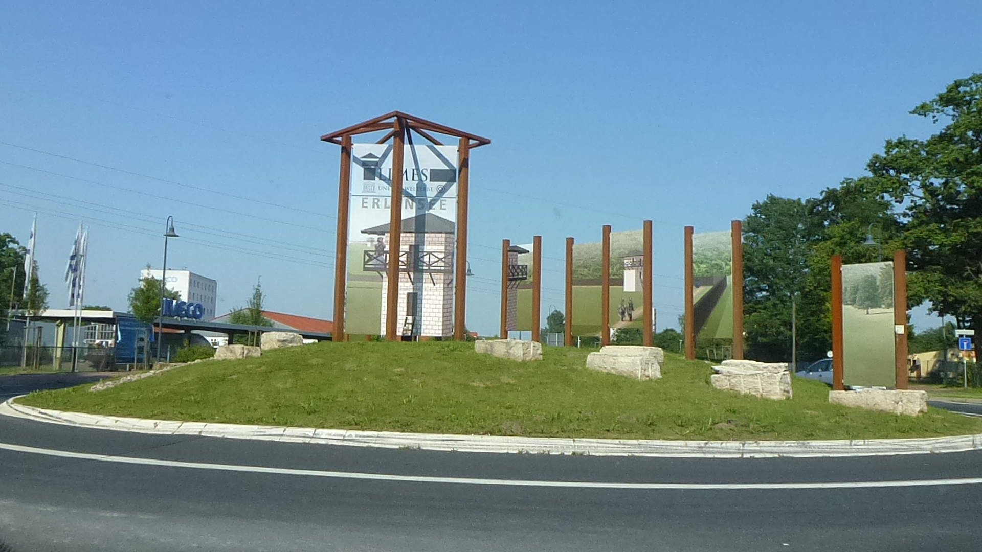 Roundabout with a Monument about the Limes at the Street No. L3268 from Hanau to Erlensee Rueckingen